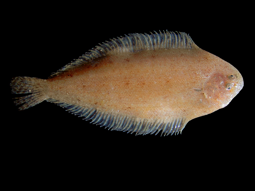 Solenette on board of RV Belgica from the southern North Sea.